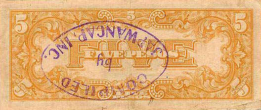 Japanese Invasion Money with JAPWANCAP overprint